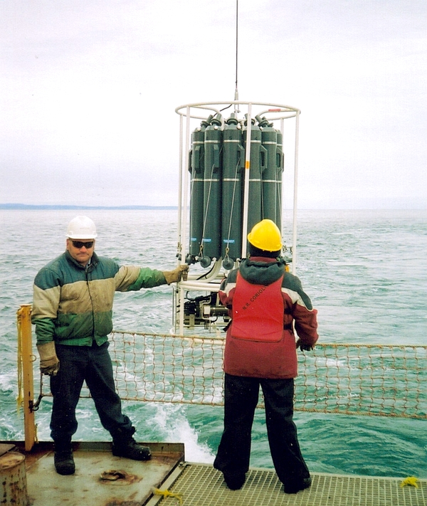 Water sample collect on bord of Coriolis II.